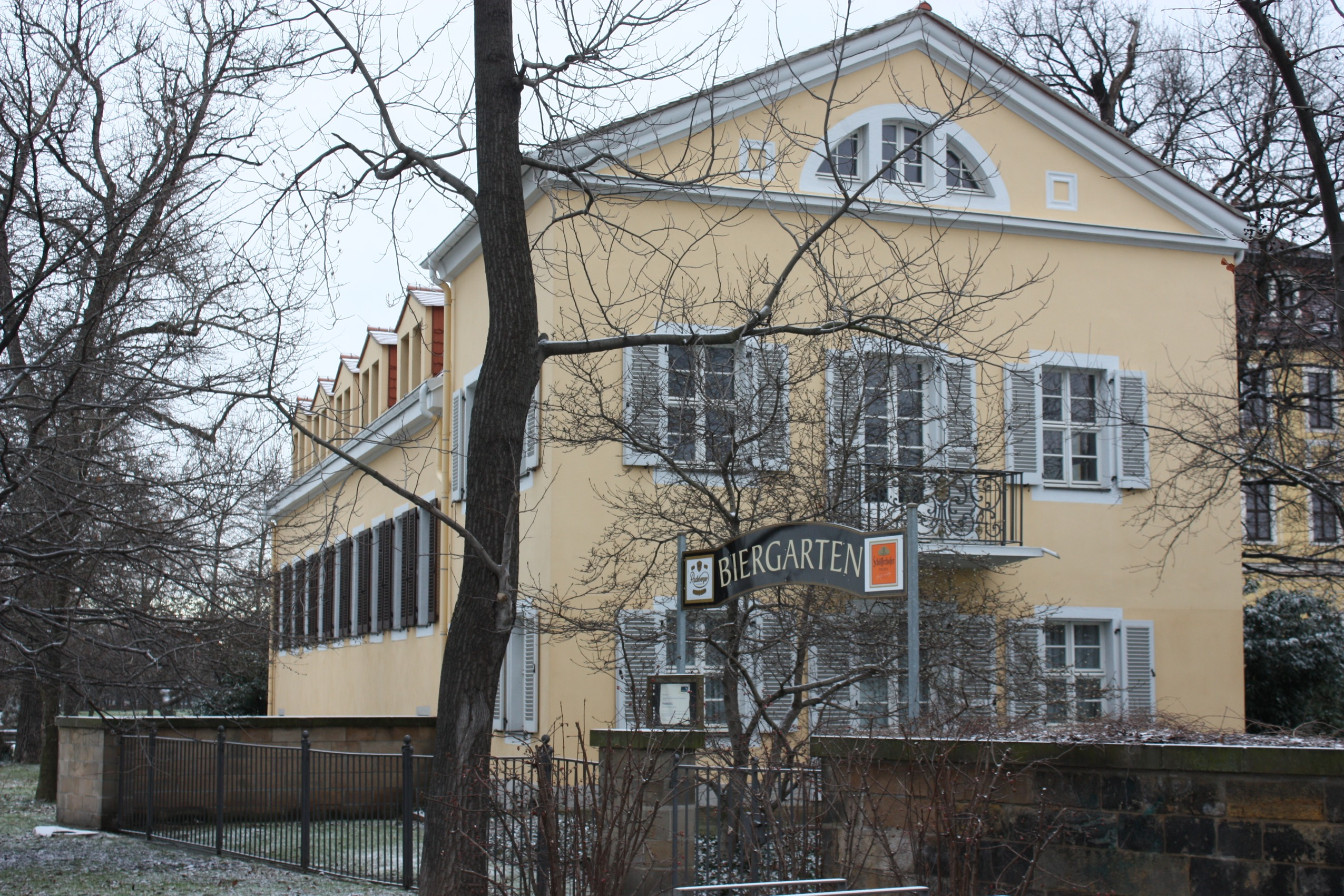 Dresden, the former garden house of Vogel